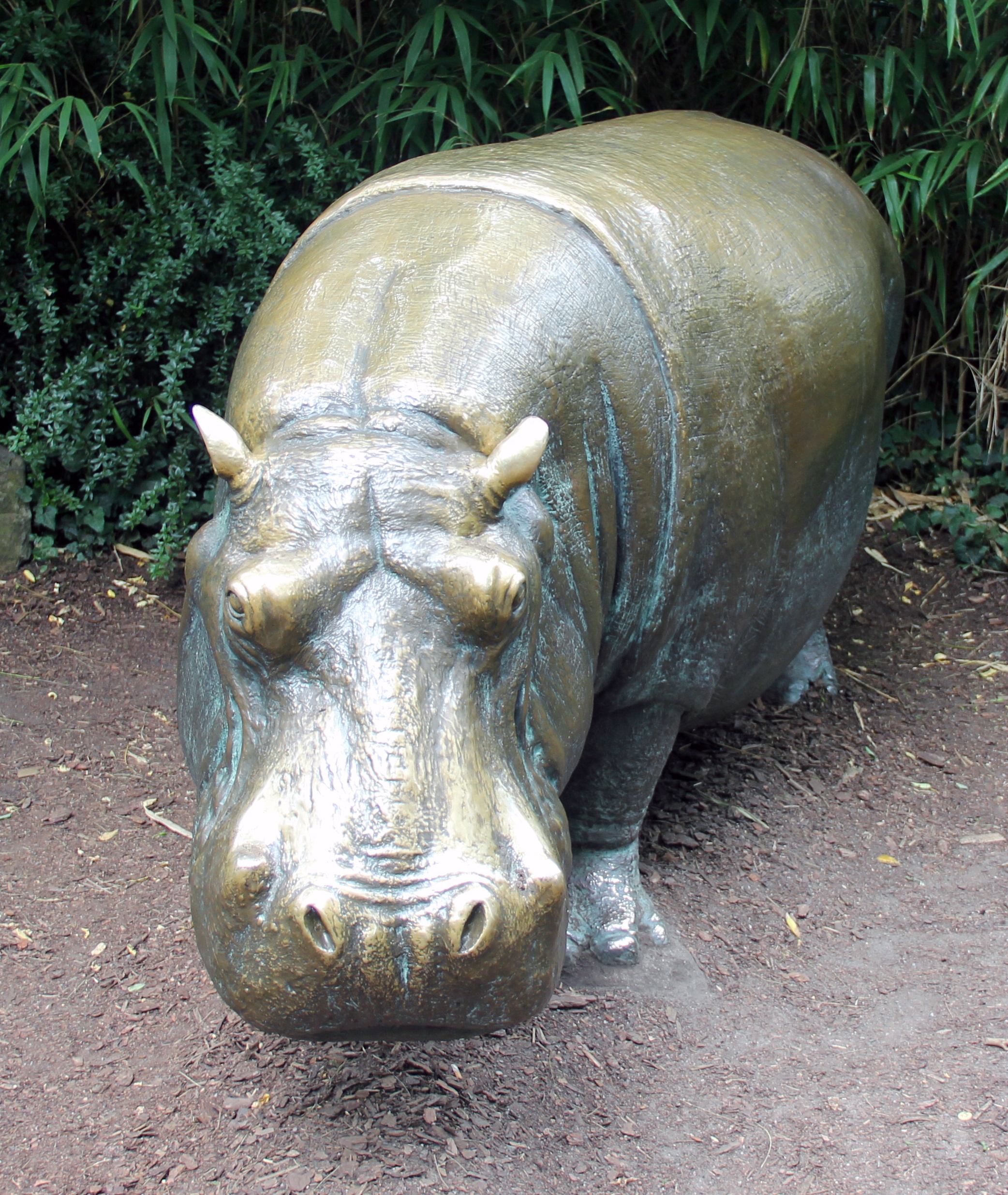 Sculpture, "Knautschke" by Manfred Gräfe, 1997, Hardenbergplatz 8, Berlin-Tiergarten, Germany